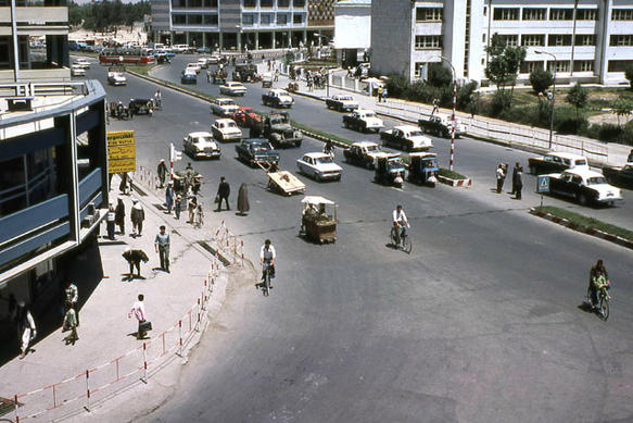 A view of the downtown area of Kabul, the capital of Afghanistan.